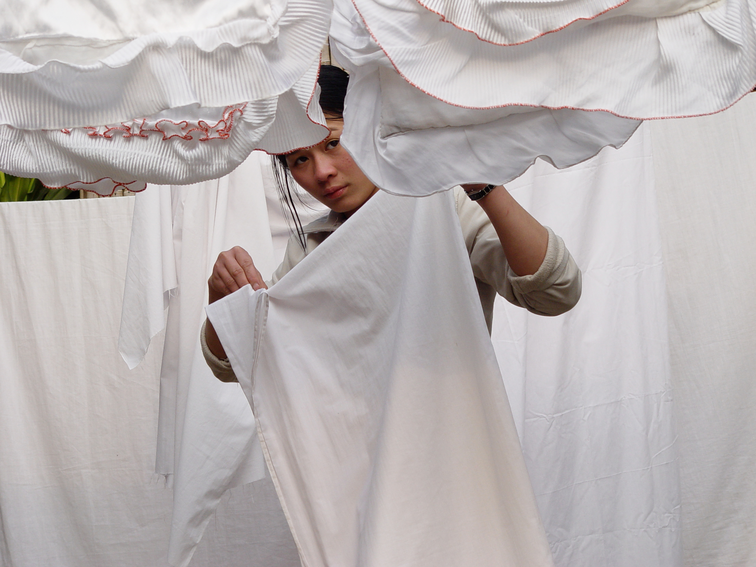 Doing the laundry, Mai Chau, Vietnam